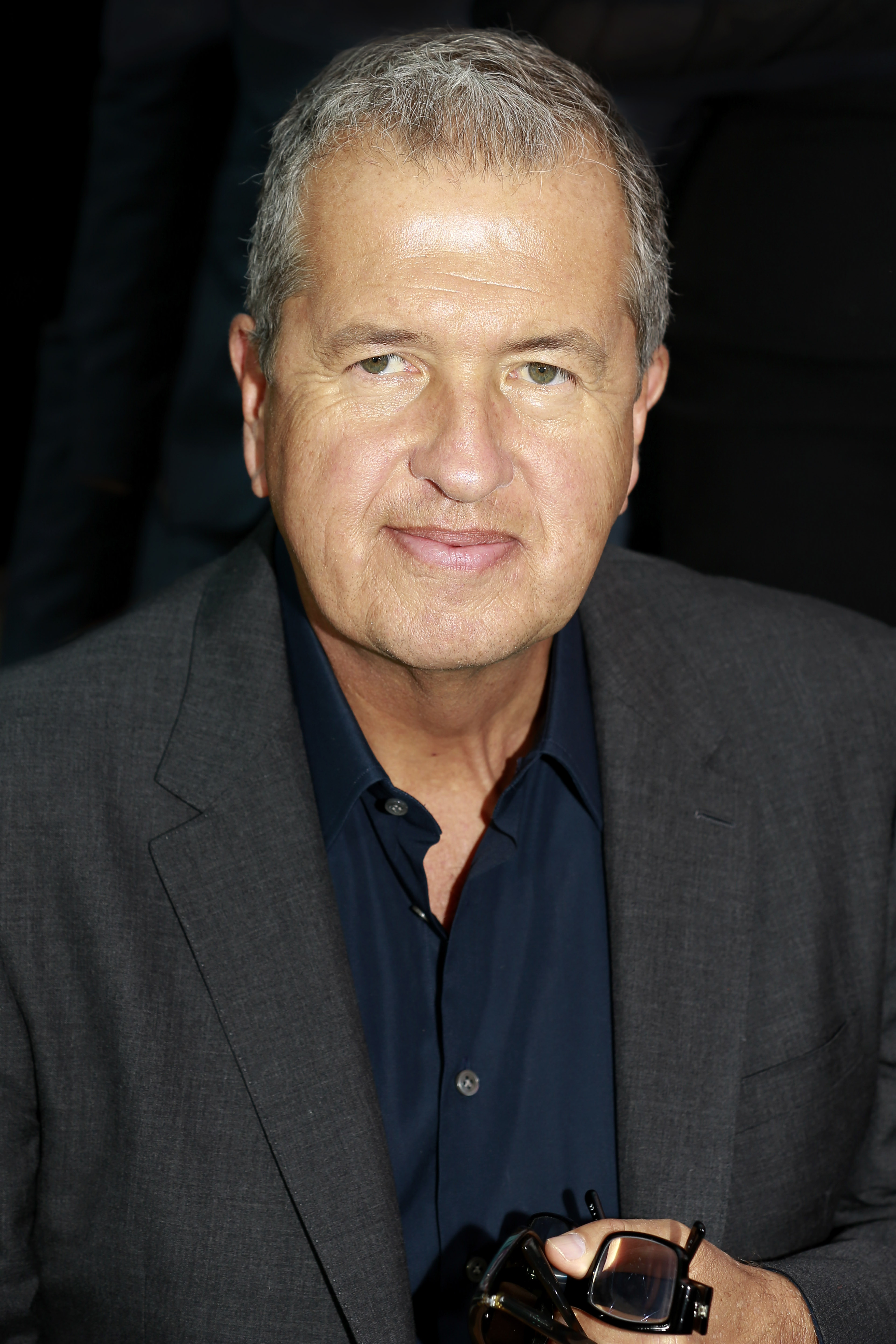 Mario Testino Portrait by : Walterlan Papetti